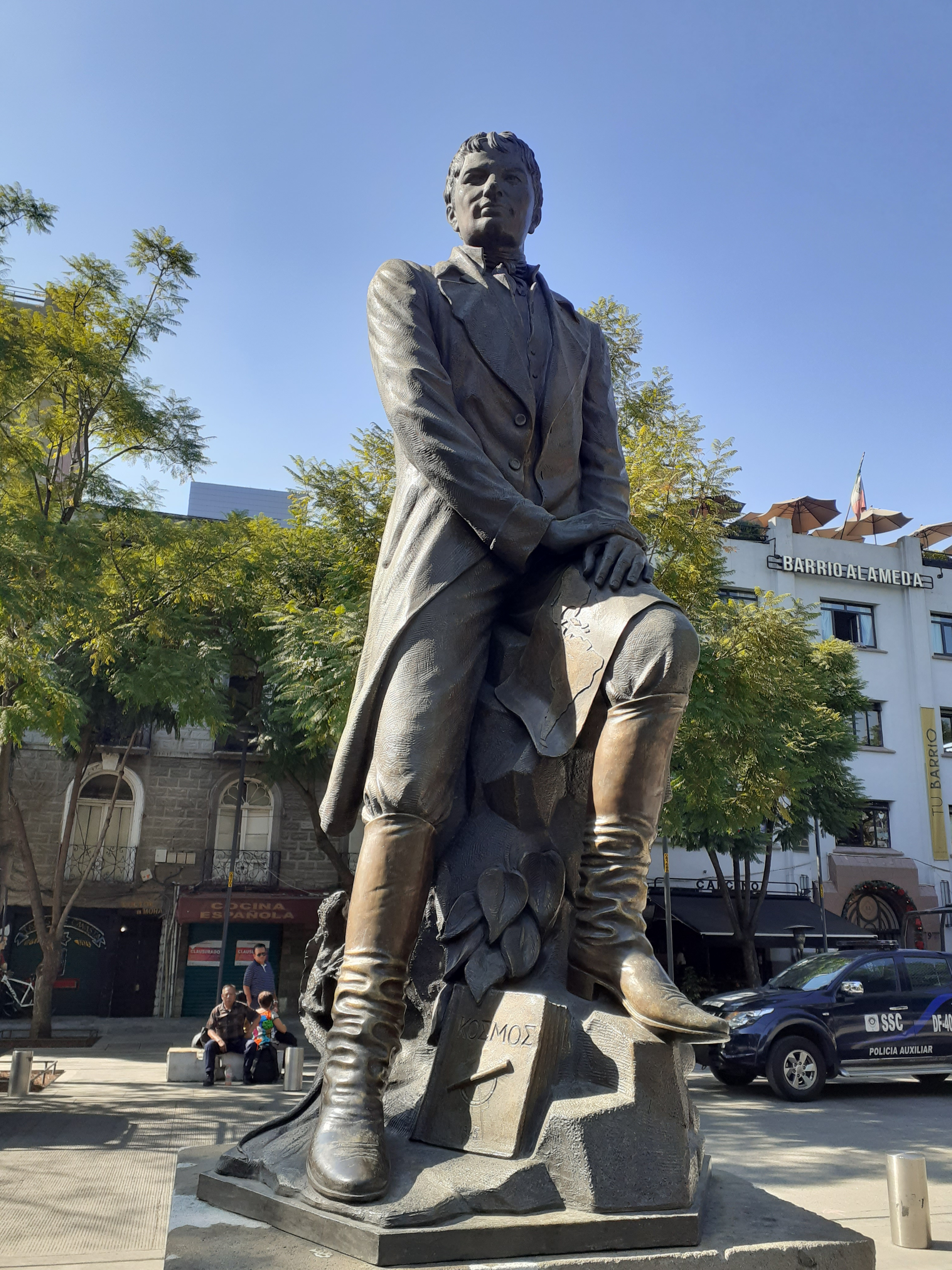 Monument to Alexander Von Humboldt, Alameda Central, Mexico City. Place where it was relocated. 2019.